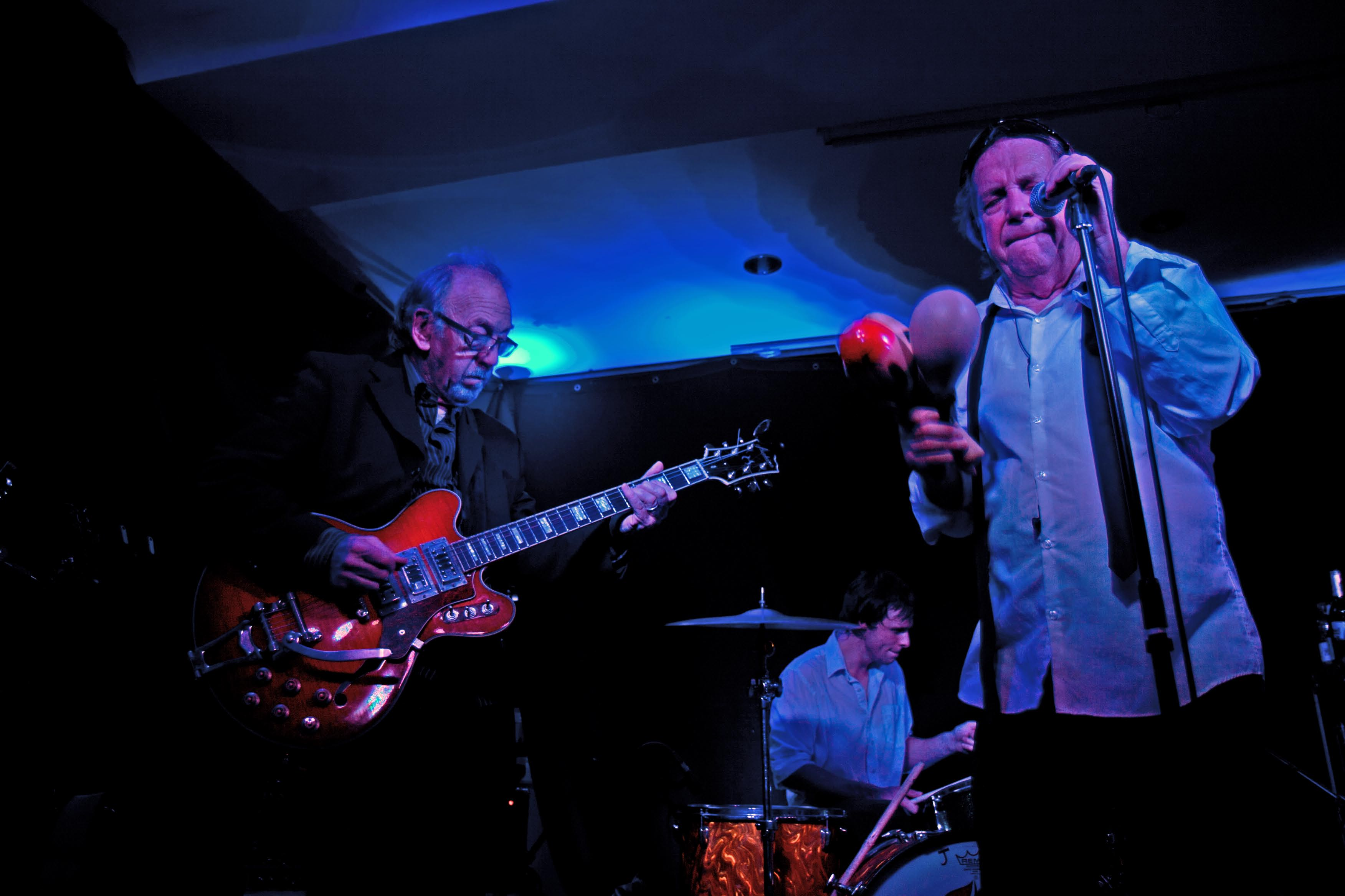 Dick Taylor and Phil May of the Pretty Things at Saltburn Spa The Pretty Things live at Spa Hotel, Saltburn-by-the-Sea, UK, on 27 September 2013.